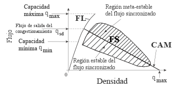 Traffic flow density plane